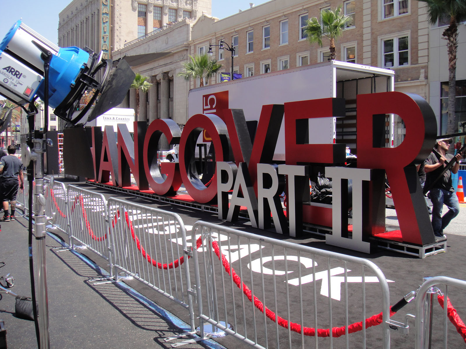 Setting up for the Hangover Part 2 red carpet premiere